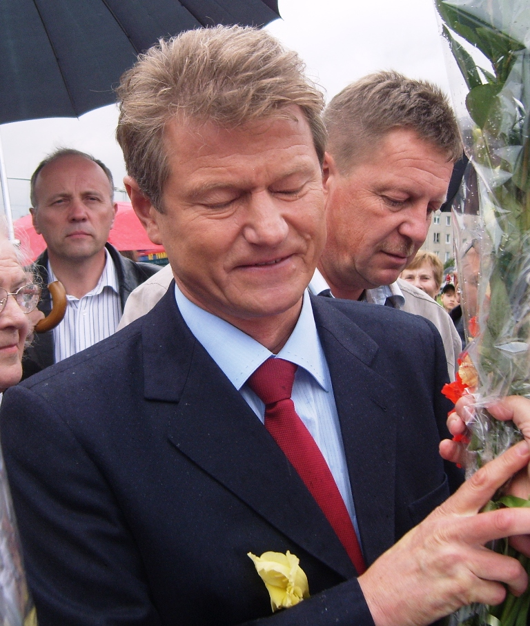 president Rolandas Paksas in Mazeikiai August 25, en:2008